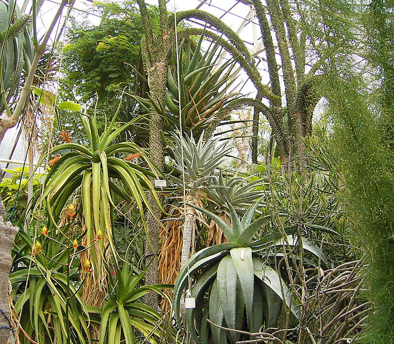 Succulent plant collection - BG Heidelberg, Germany